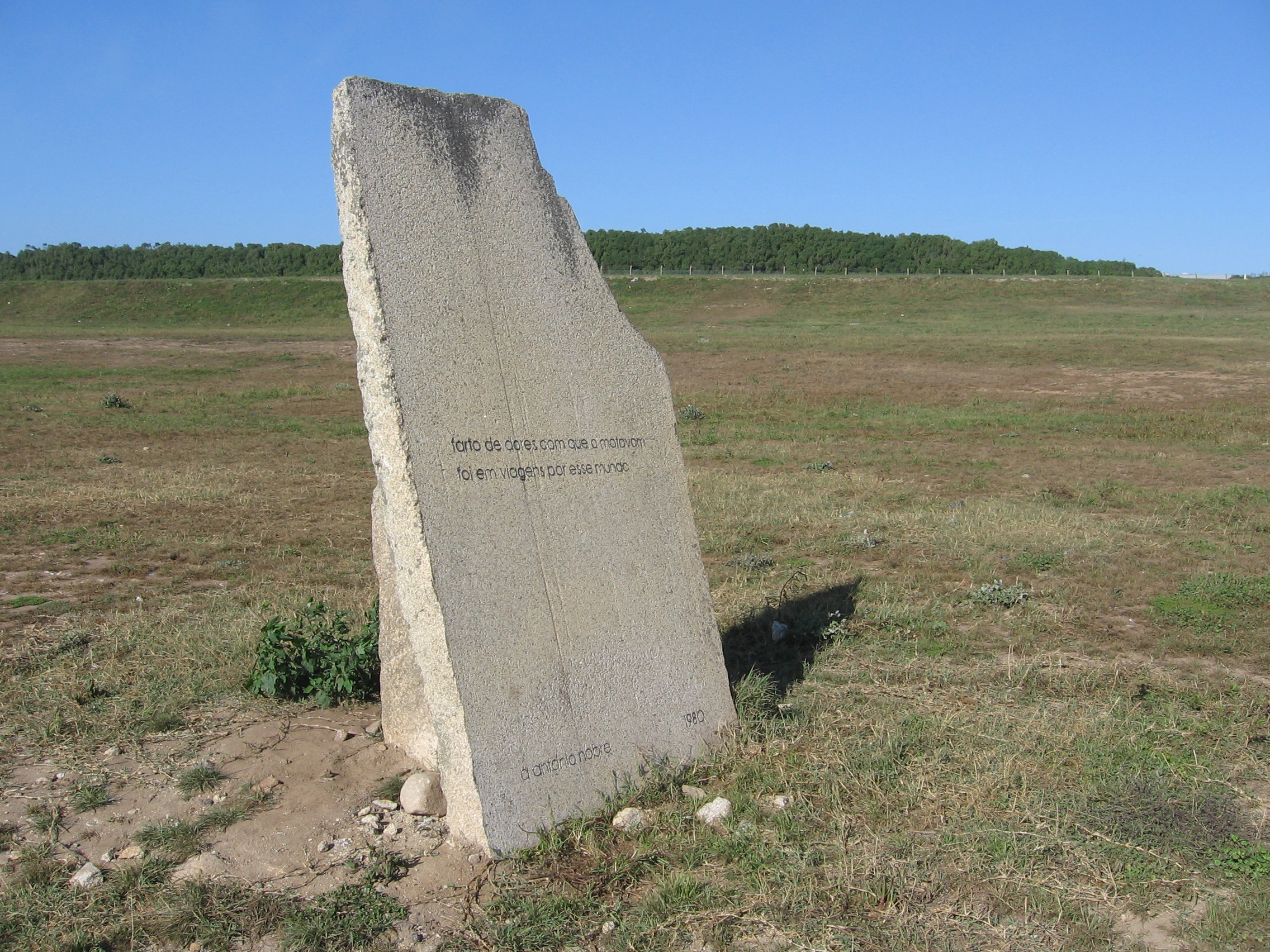 The monument for Portuguese poet António Nobre is located near the Boa Hora beach in Leça da Palmeira. It has been designed by Álvaro Siza and erected in 1980. The inscription reads: «farto de dores com que o matavam foi em viagens por esse mundo - a António Nobre, 1980».